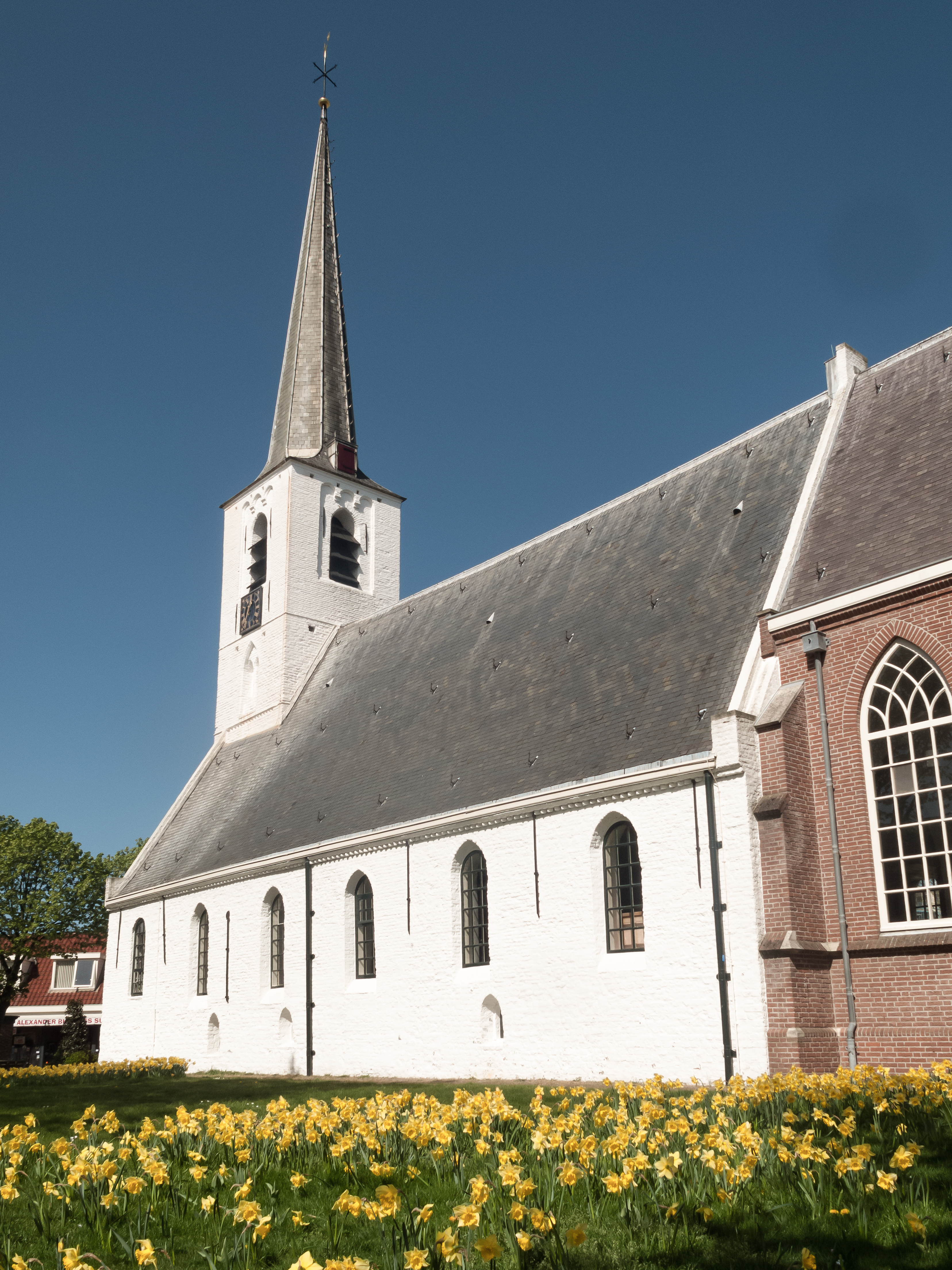 Noordwijkerhout, church: de Witte Kerk